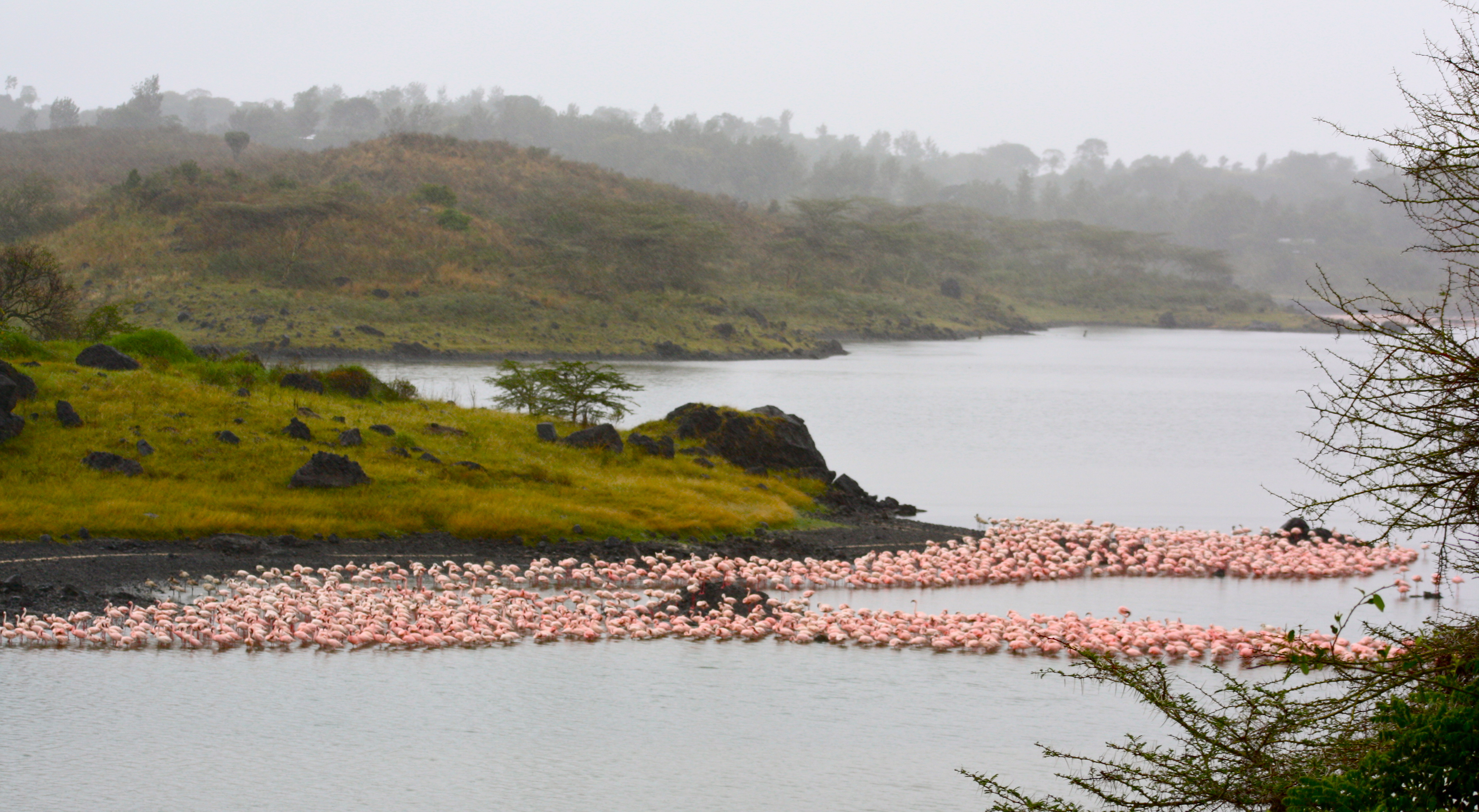 Flamingos at Arusha National Park - 25